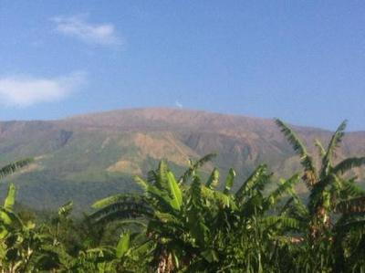 The Kupe and Muanenguba mountains are chained mountains located in the Southwest and Littoral regions of Cameroon. They carry some of the oldest forests in Africa known to be found nowhere else in Africa